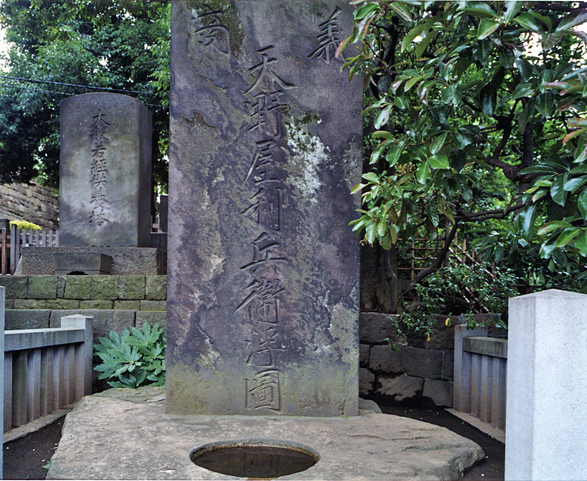 Monument to Amanoya Rihei at Sengaku-ji, Takanawa, Minato, Tokyo, Japan. I took this photo and contribute my rights in the file to the public domain; individuals and organizations retain rights to the images in it. See Forty-seven Ronin.